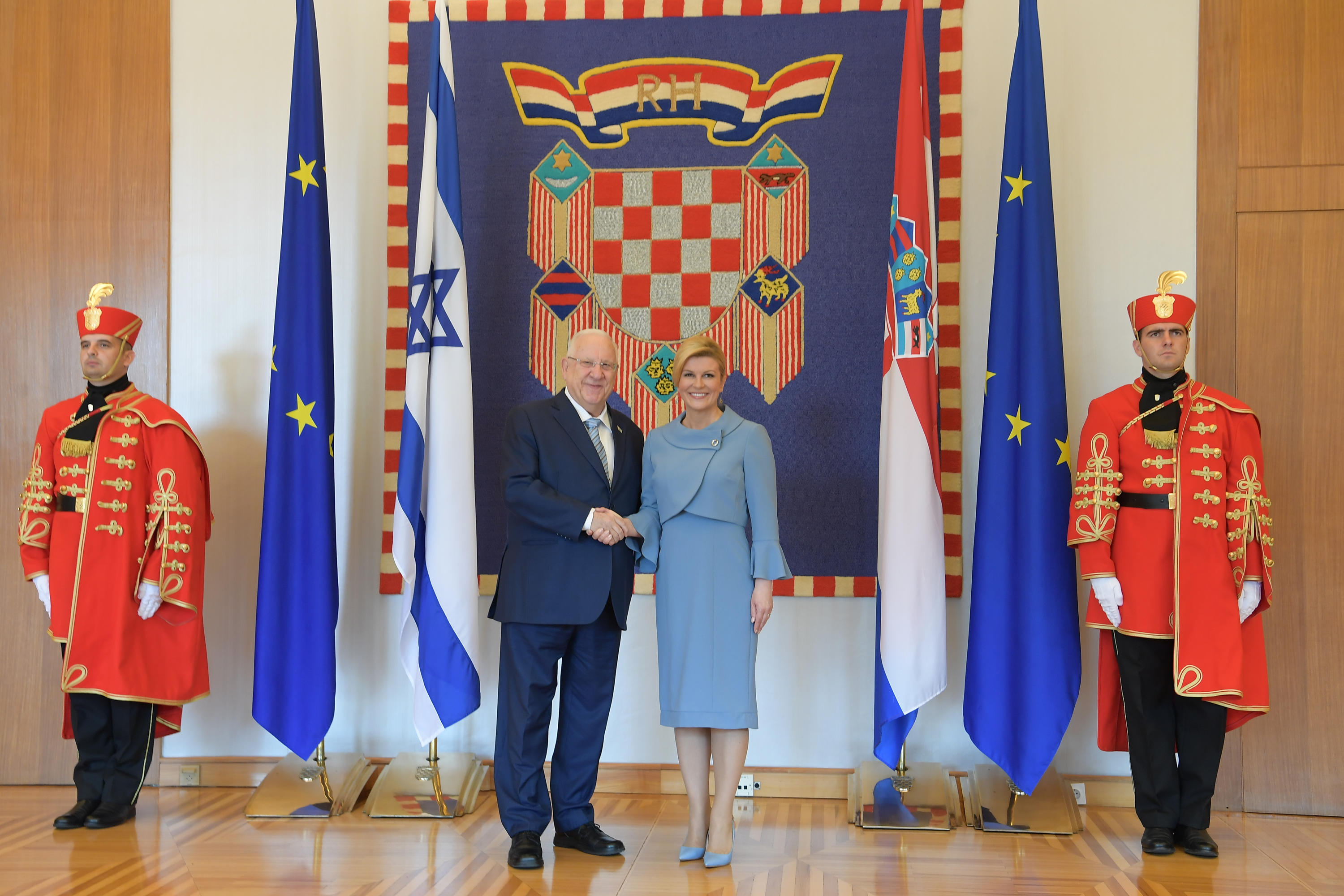 the President of Israel, Reuven Rivlin, at a state reception at the presidential palace accepted by the President of Croatia, Kolinda Grabar-Kitarović. Tuesday, July 24, 2018. Photo credit: Amos Ben Gershom / GPO.